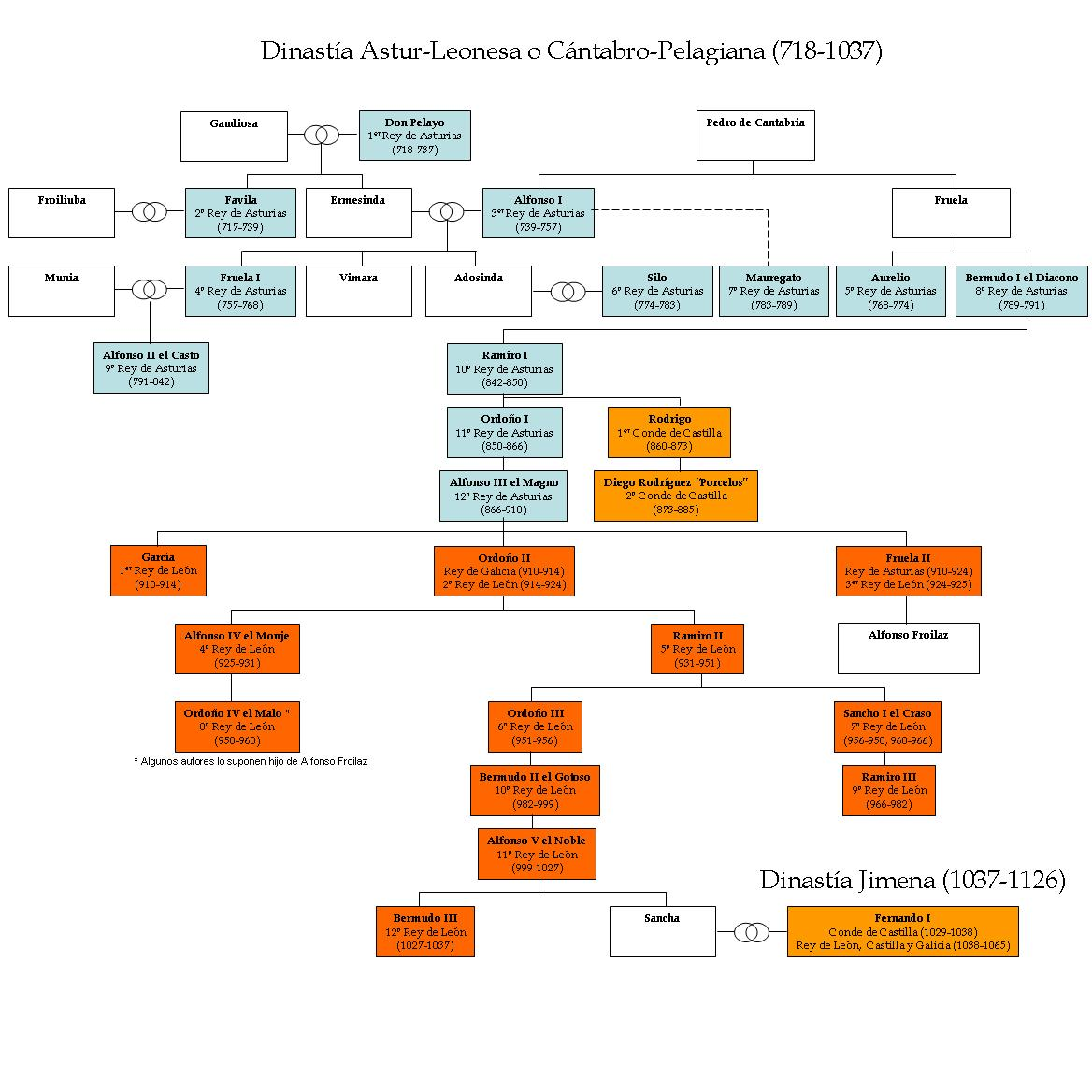 Dynasty Astur-Leonesa of kings of Asturias and León s. VIII to s. XI